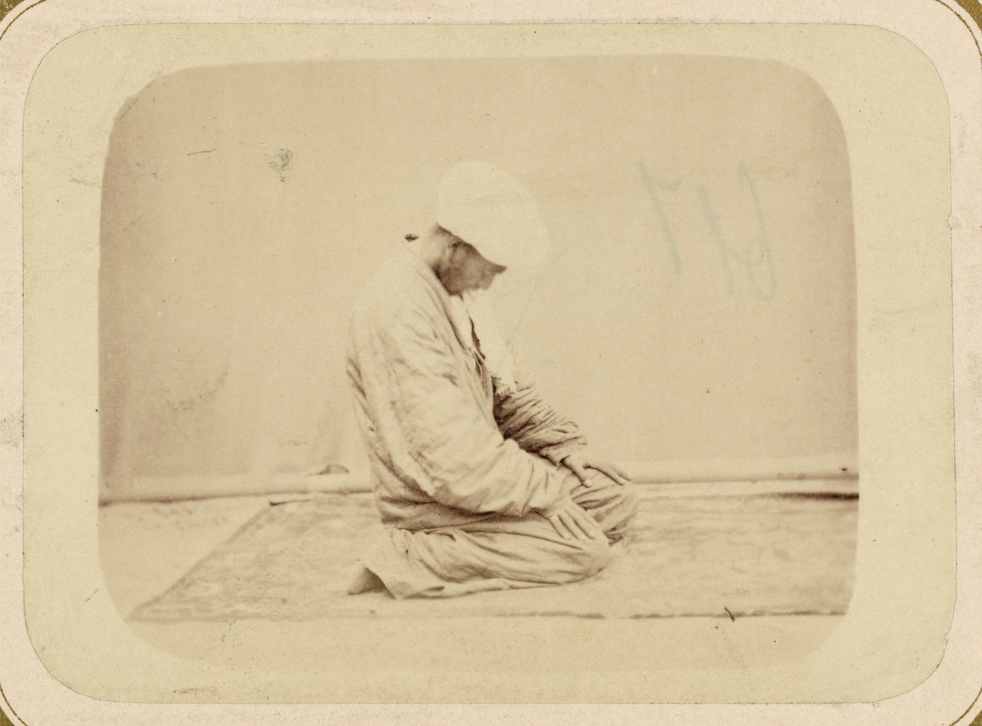 This photograph is from the ethnographical part of Turkestan Album, a comprehensive visual survey of Central Asia undertaken after imperial Russia assumed control of the region in the 1860s. Commissioned by General Konstantin Petrovich von Kaufman (1818–82), the first governor-general of Russian Turkestan, the album is in four parts spanning six volumes: “Archaeological Part” (two volumes); “Ethnographic Part” (two volumes); “Trades Part” (one volume); and “Historical Part” (one volume). The principal compiler was Russian Orientalist Aleksandr L. Kun, who was assisted by Nikolai V. Bogaevskii. The album contains some 1,200 photographs, along with architectural plans, watercolor drawings, and maps. The “Ethnographic Part” includes 491 individual photographs on 163 plates. The photographs show individuals representing the different peoples of the region (Plates 1–33); daily life and rituals (Plates 34–91); and views of villages and cities, street vendors, and commercial activities (Plates 92–163). Ethnographic photographs; Muslims; Photographic surveys; Prayer; Rites and ceremonies; Spiritual life; Turkic peoples